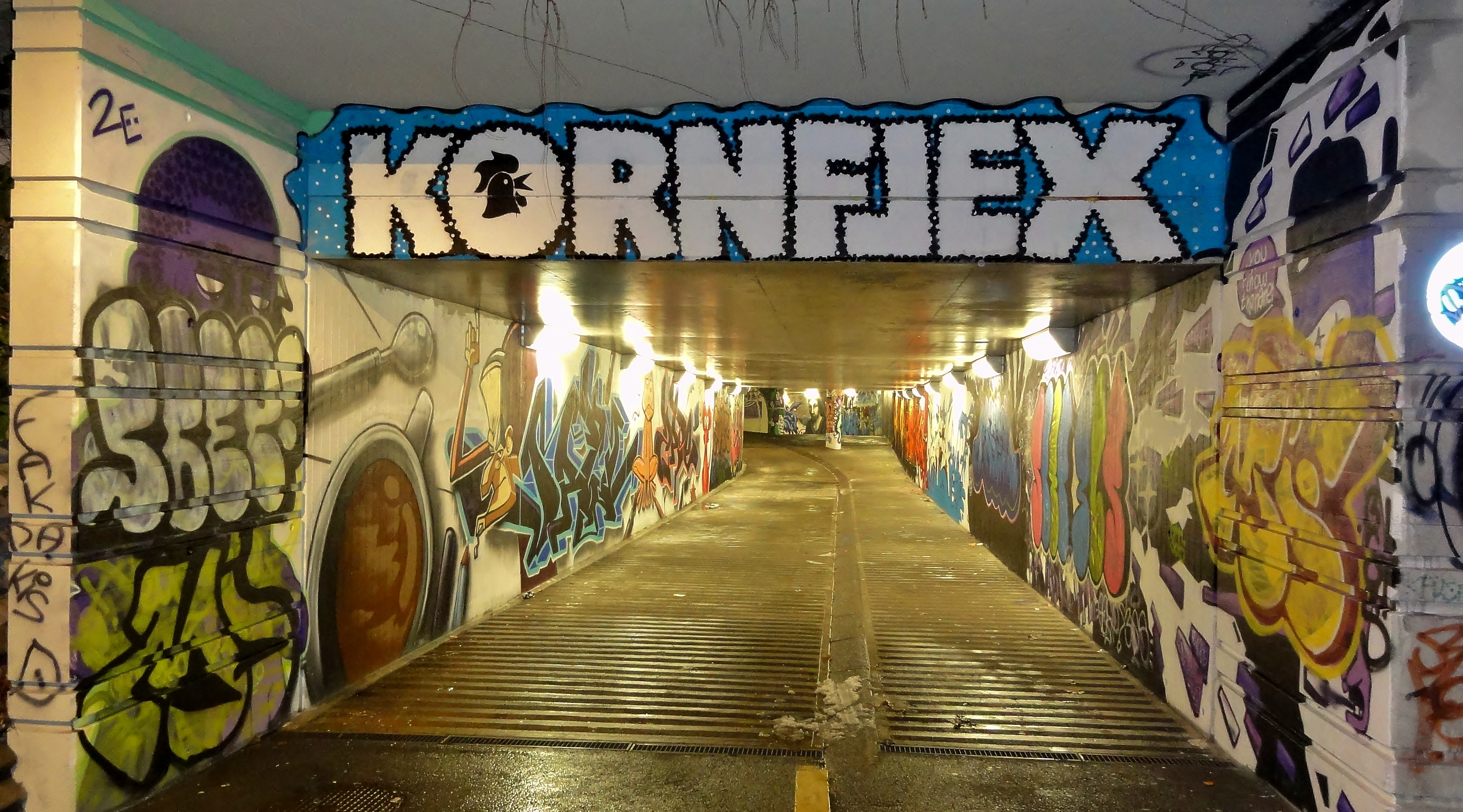 Street art at Geneva - Grafitti at Bachet-de-Pesay underpass (towards the Stade de Genève and La Praille)